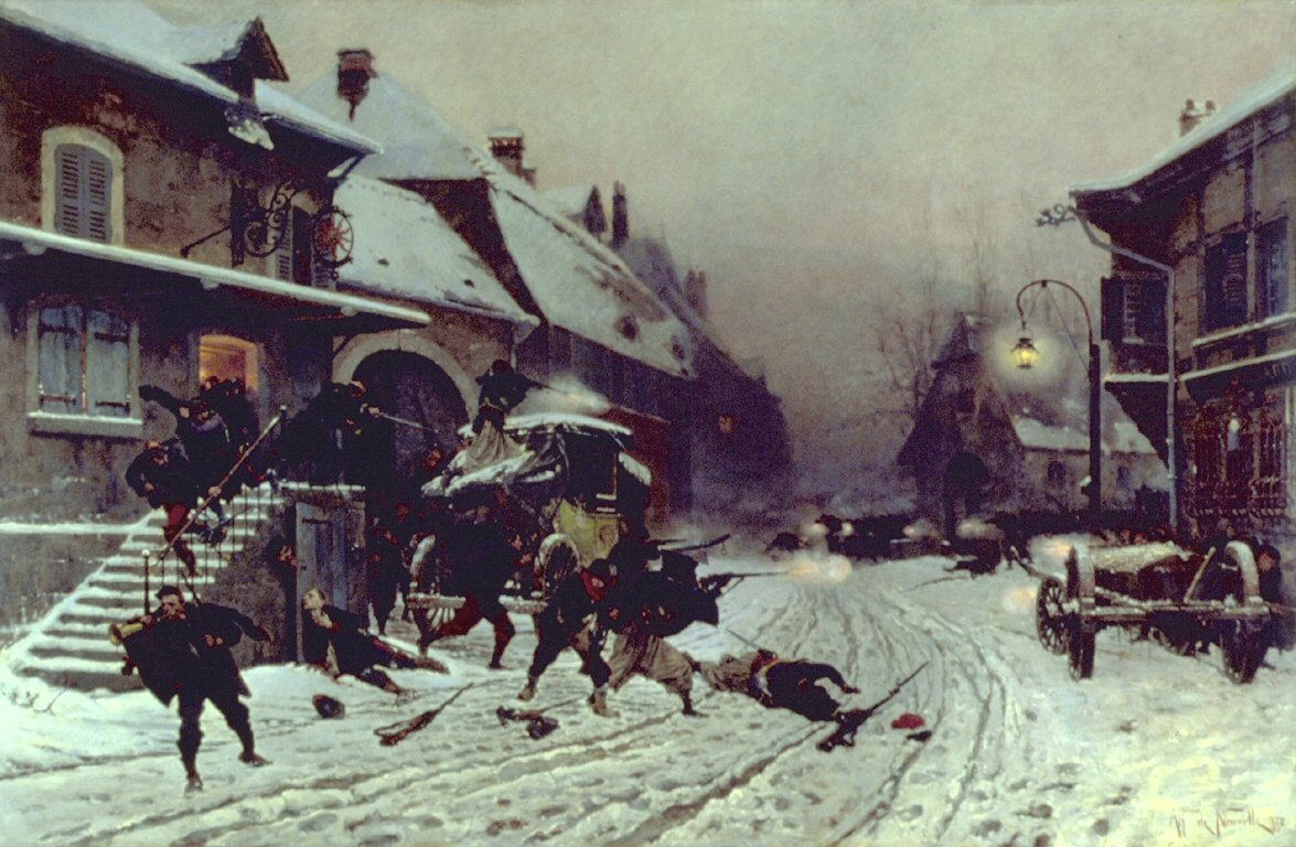 The scene is a French town in the Jura region, near the Swiss border. As a bugler sounds the alarm, French troops (Algerian riflemen and members of the Garde Mobile) rush from an inn to defend themselves from the advancing Prussians. Rather than dwelling on France's defeat in the Franco-Prussian War (1870–71), de Neuville, a veteran of the war, specialized in works glorifying his country's heroic resistance rather than its military defeat. He took exceptional efforts to re-create the subjects factually, revisiting the battlefields and studying the weapons, uniforms, and other paraphernalia of war.